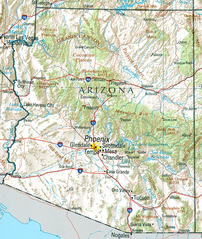 Map of Arizona. Shaded relief map with state boundaries, forest cover, place names, major highways. Portion of "The National Atlas of the United States of America. General Reference", compiled by U.S. Geological Survey 2001, printed 2002